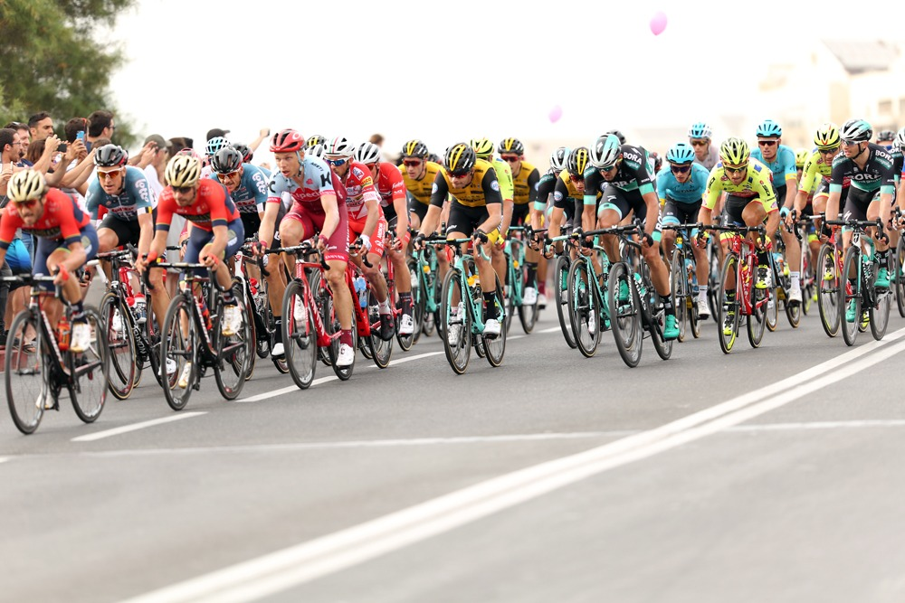 Giro d'Italia cyclists pass through a Tel Aviv street